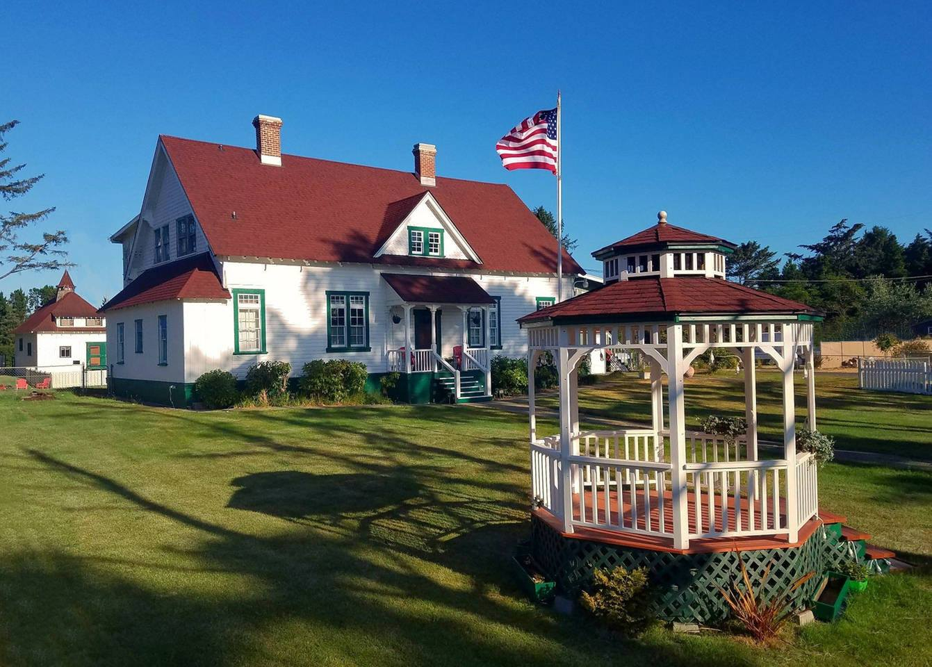 A photograph of the historic Klipsan Beach Life Saving Station, which was later converted into the #309 Coast Guard Station.